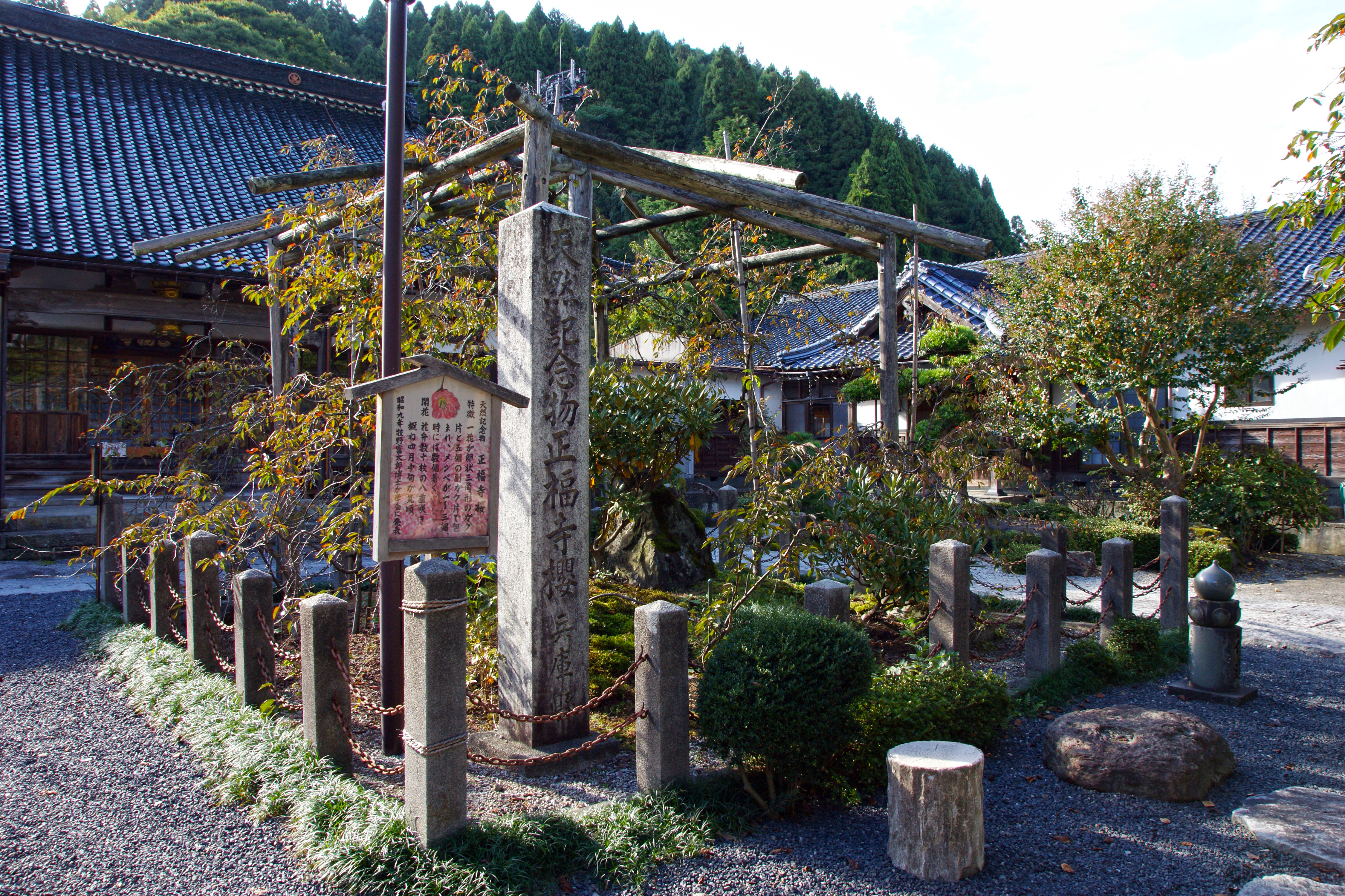 Shofukuji in Shinonsen, Hyogo prefecture, Japan.